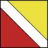 Insignia of the British 41st Division.